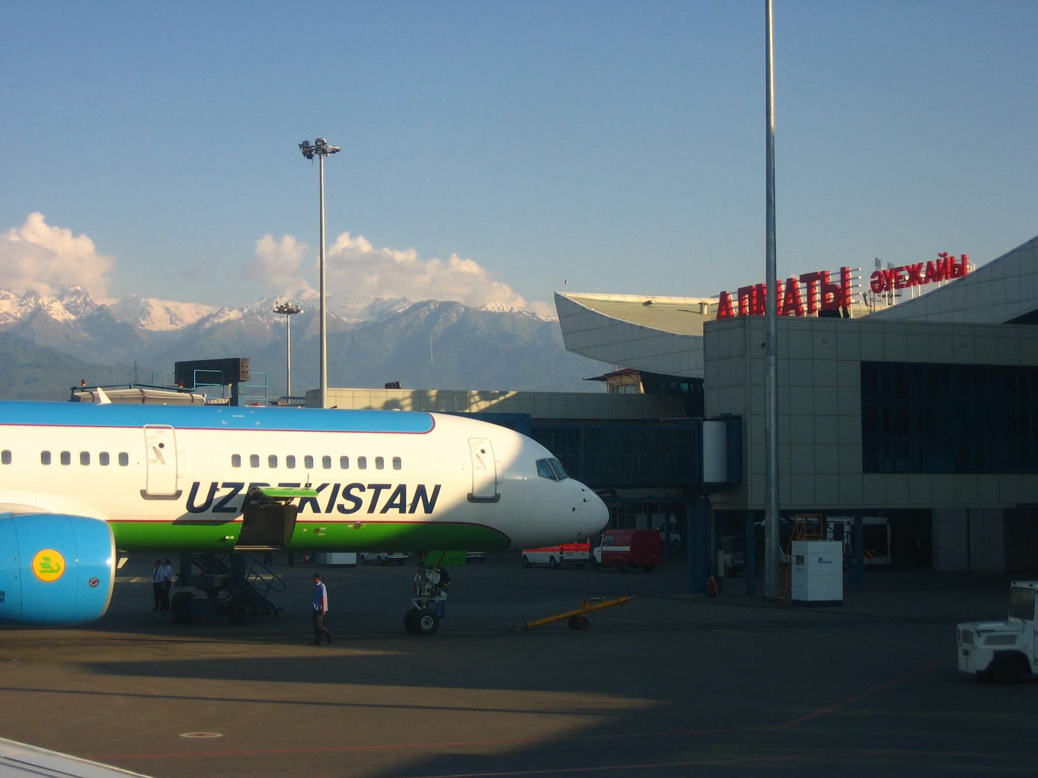 Alma Ata International Airport - view from a plane